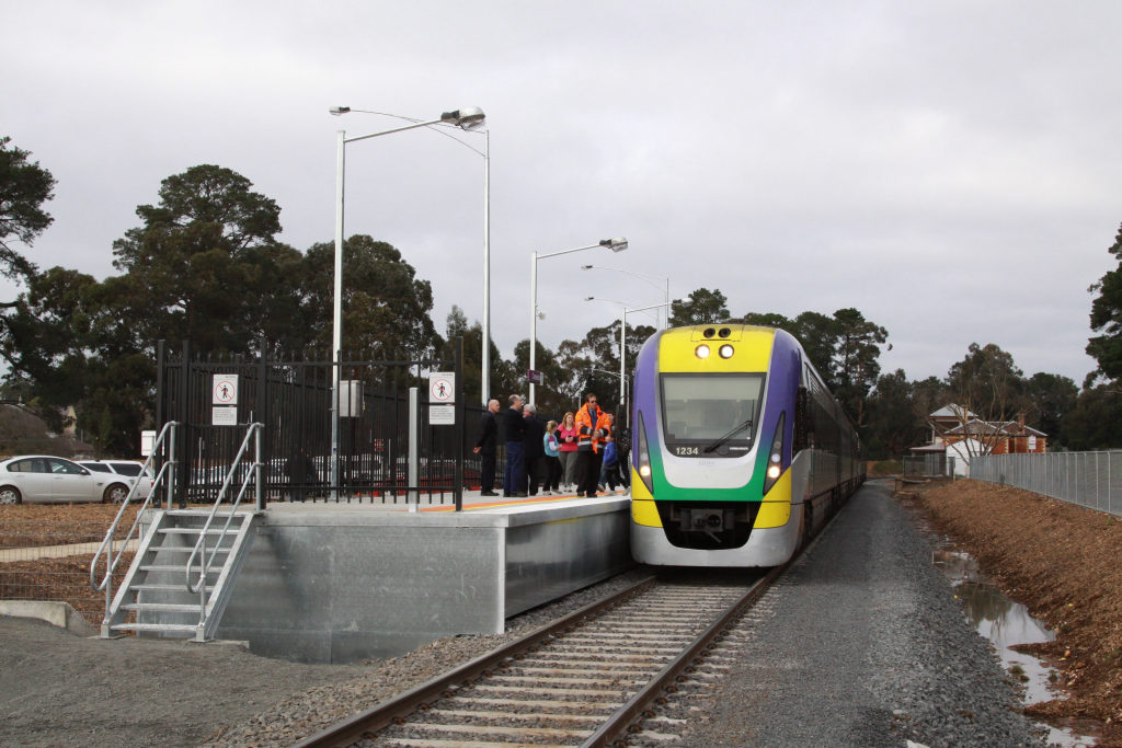 VLocity train at Creswick railway station, Victoria on opening day. The new platform was built in the goods yard, the original station building and platform are on the opposite side of the tracks.